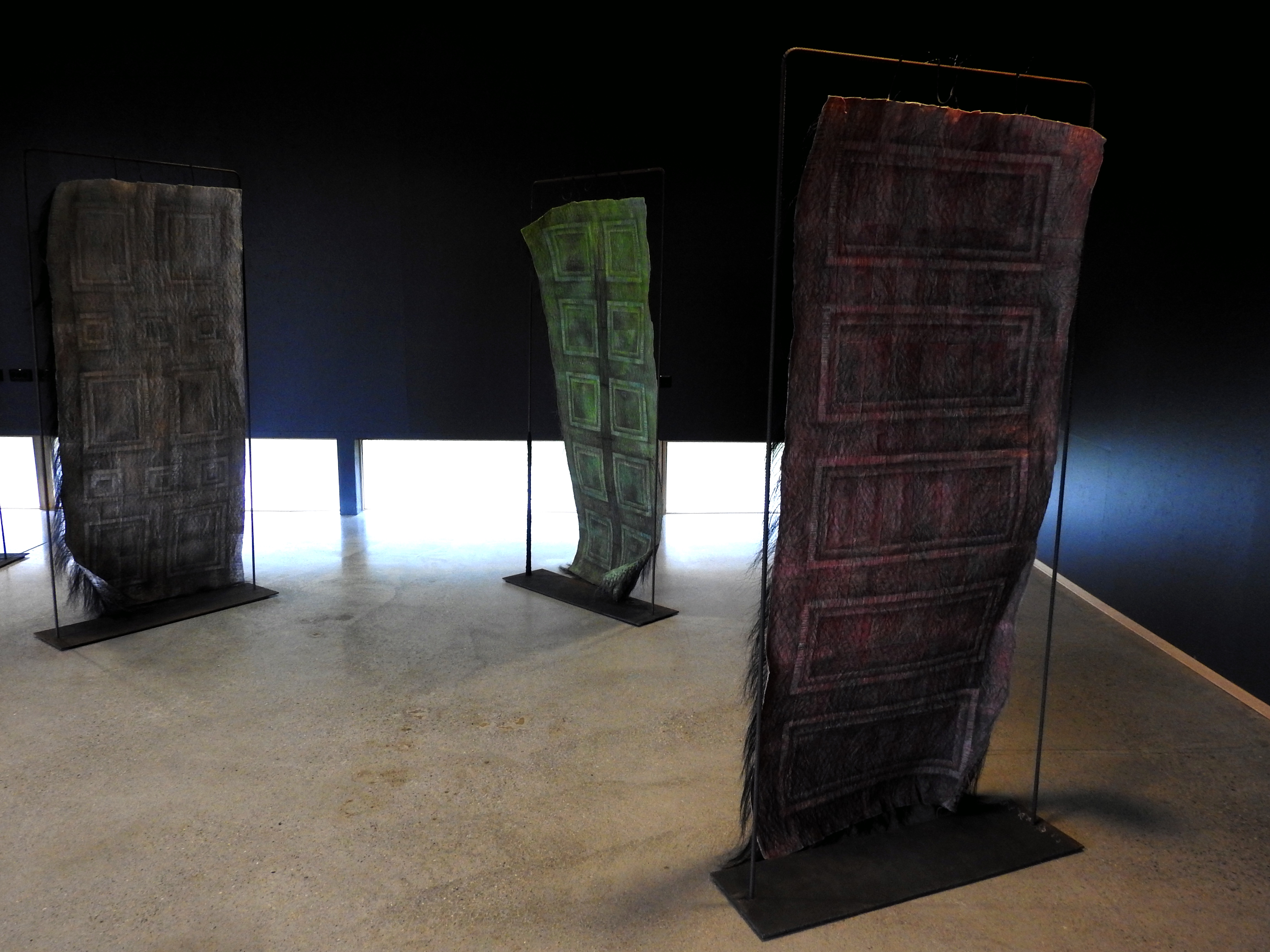 Portable Openings: Installation by the artist Aslaug M. Juliussen presented at the Äʹvv Skoltsami Museum in Neiden in September 2018.